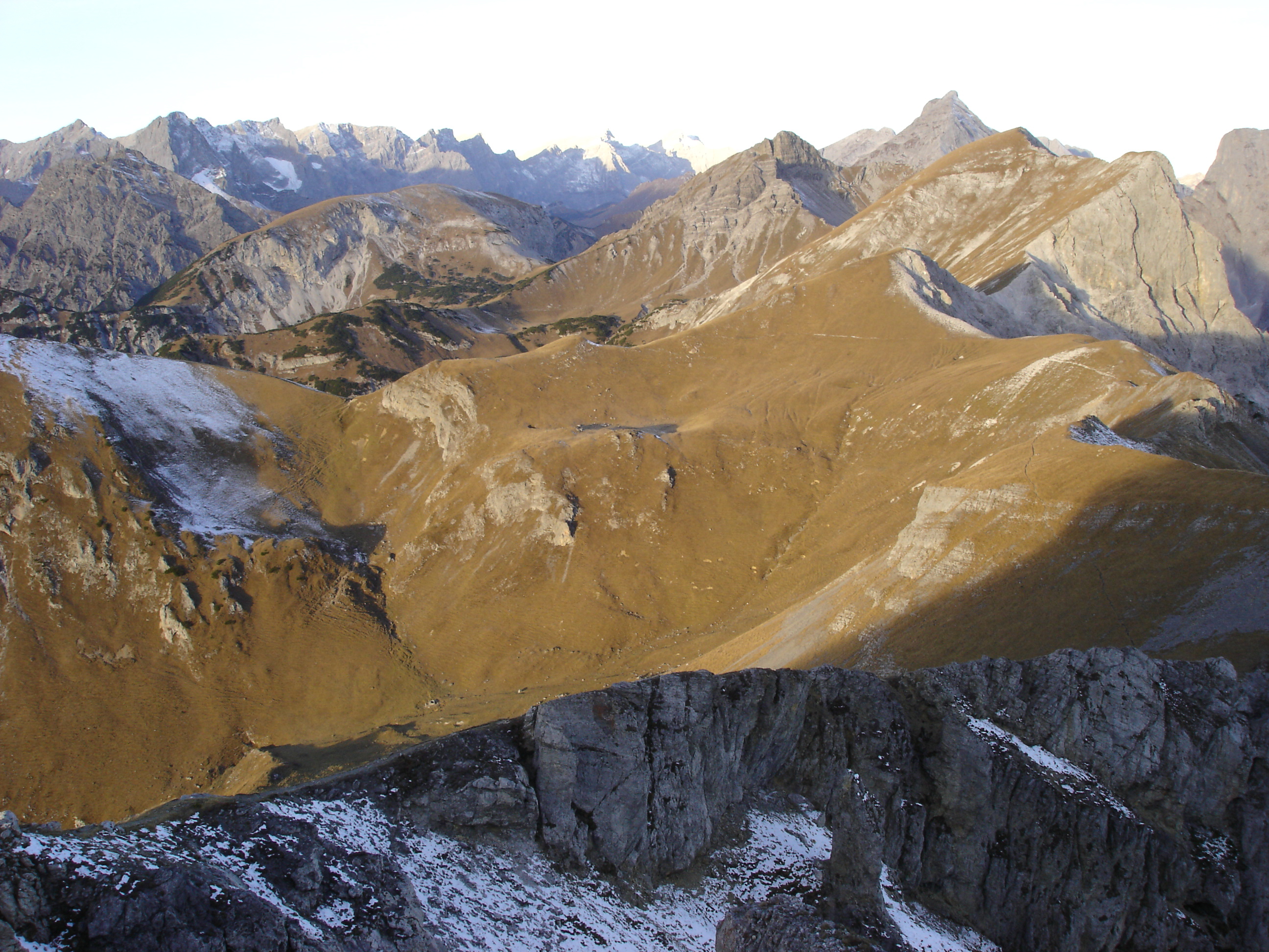 View from the Ochsenkopf to West with Gamskarspitze, Kaiserjoch, Rappenspitze, Sonnjoch (from the foreground to the background. Karwendel, Tyrol, Austria